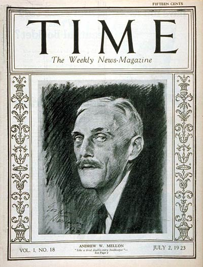 TIME Magazine Cover Featuring Andrew Mellon (2 Jul 1923)